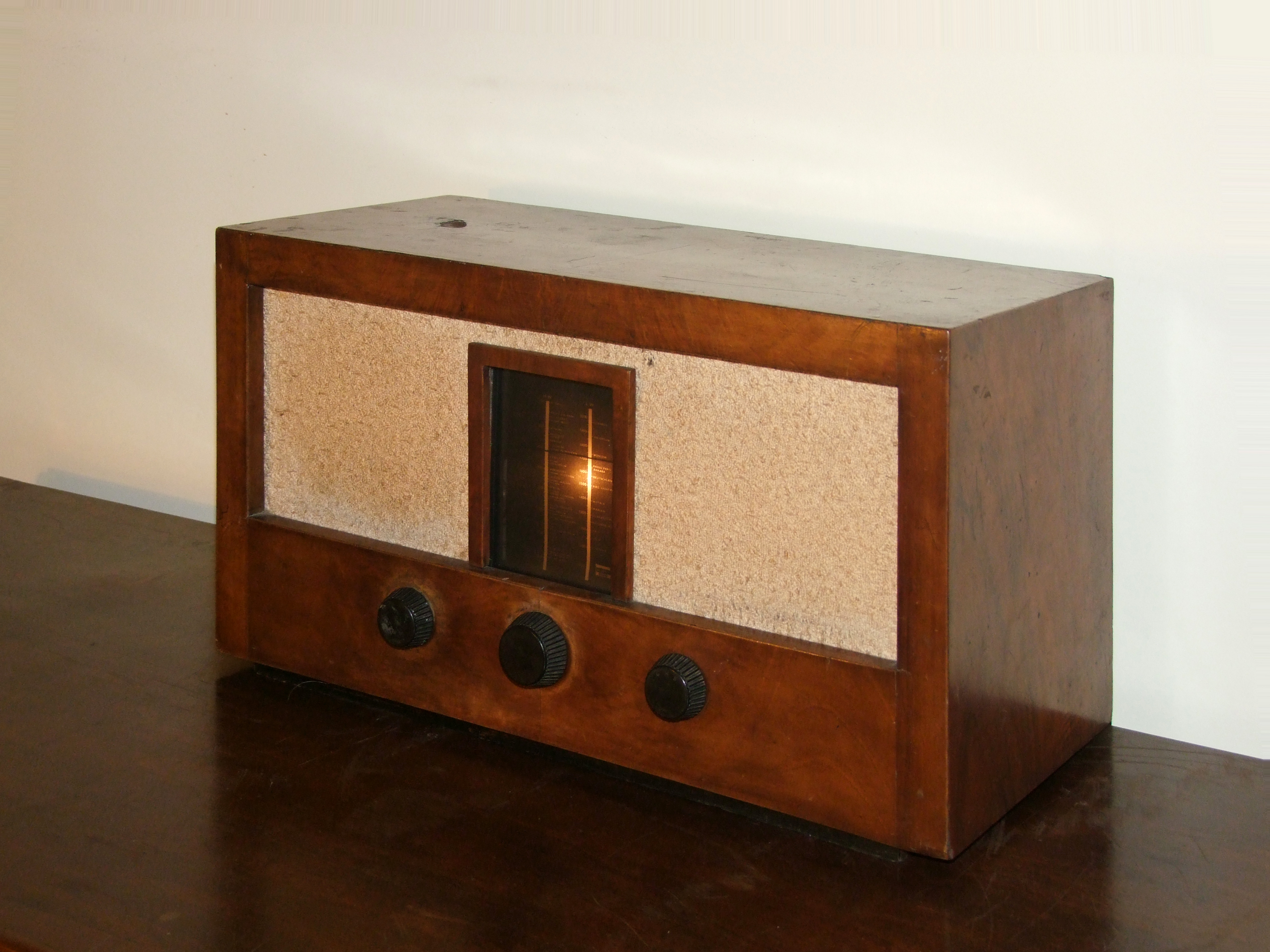 Murphy Radio Ltd.; Welwyn Garden City, England. Model: U102. Year: 1947